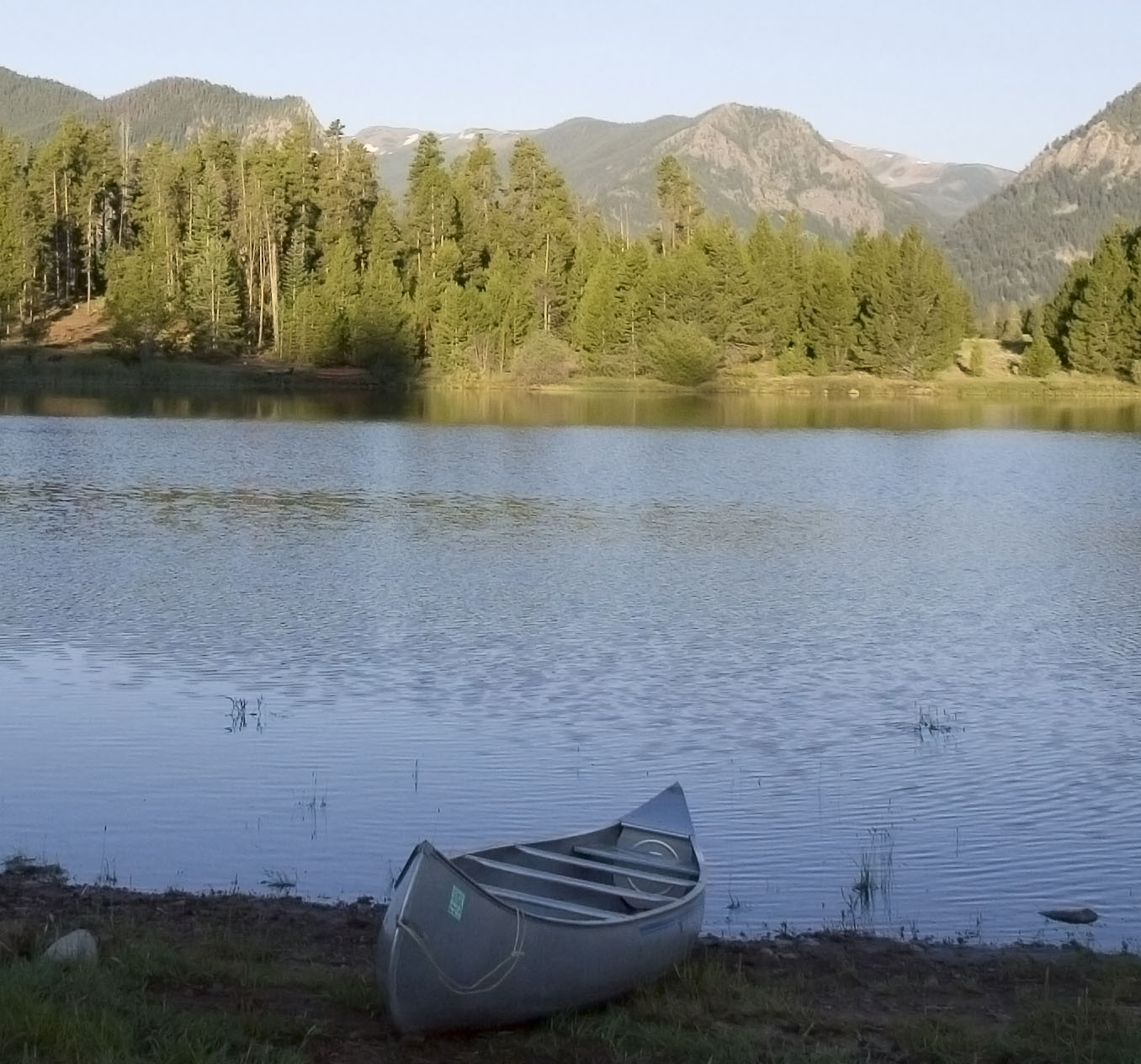 SourceAdam Ginsburg Lake Dillon in Colorado